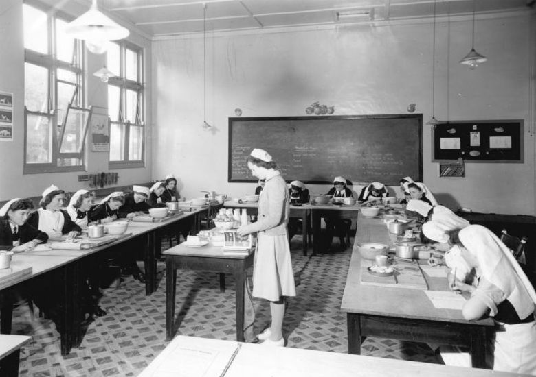 Description: Westport Technical High School - Home science Photographer: Unknown Date: Unknown Our reference: AAQT 6539 A1226 This photo is from Archives New Zealand's National Publicity Studio's collection. The National Publicity Studio was established in 1945, but its beginnings can be traced back to the establishment in 1924 of a Publicity Office - part of the Department of Internal Affairs. The emphasis of this Publicity Office was on films, photographs and booklets. The purpose of the National Publicity Studio was to provide advice to government departments and state agencies on the provision of photographic, art, and display services and in particular to assist in the production of publicity material aimed at conveying a favourable image of New Zealand.